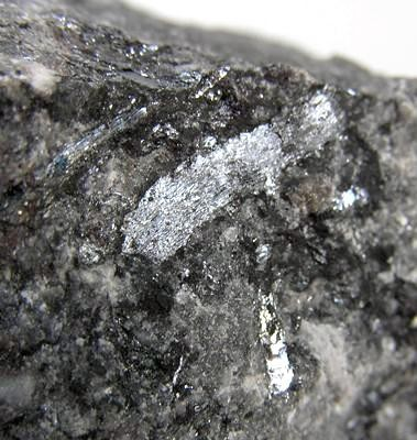 Livingstonite Locality: Huitzuco de los Figueroa (Huitzuco), Municipio de Huitzuco, Guerrero, Mexico (Locality at ) Size: 3.8 x 3.6 x 3.4 cm. Livingstonite is a very rare mercury, antimony sulfosalt and this rich and showy specimen hails from the Type Locality - Huitzuco, Guerrero, Mexico. Bright, steel-metallic livingstonite lathes to 1.2 cm are scattered on the rich antimony (stibnite) ore. Older material very seldom available on the market. Ex. Mullane Collection. We have not seen any of this material in over 5-6 years. It is a very rare specimen with superb crystals for the material.